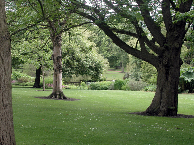 Royal Botanic Garden. World renowned botanic garden in Edinburgh occupies almost a quarter of grid square.